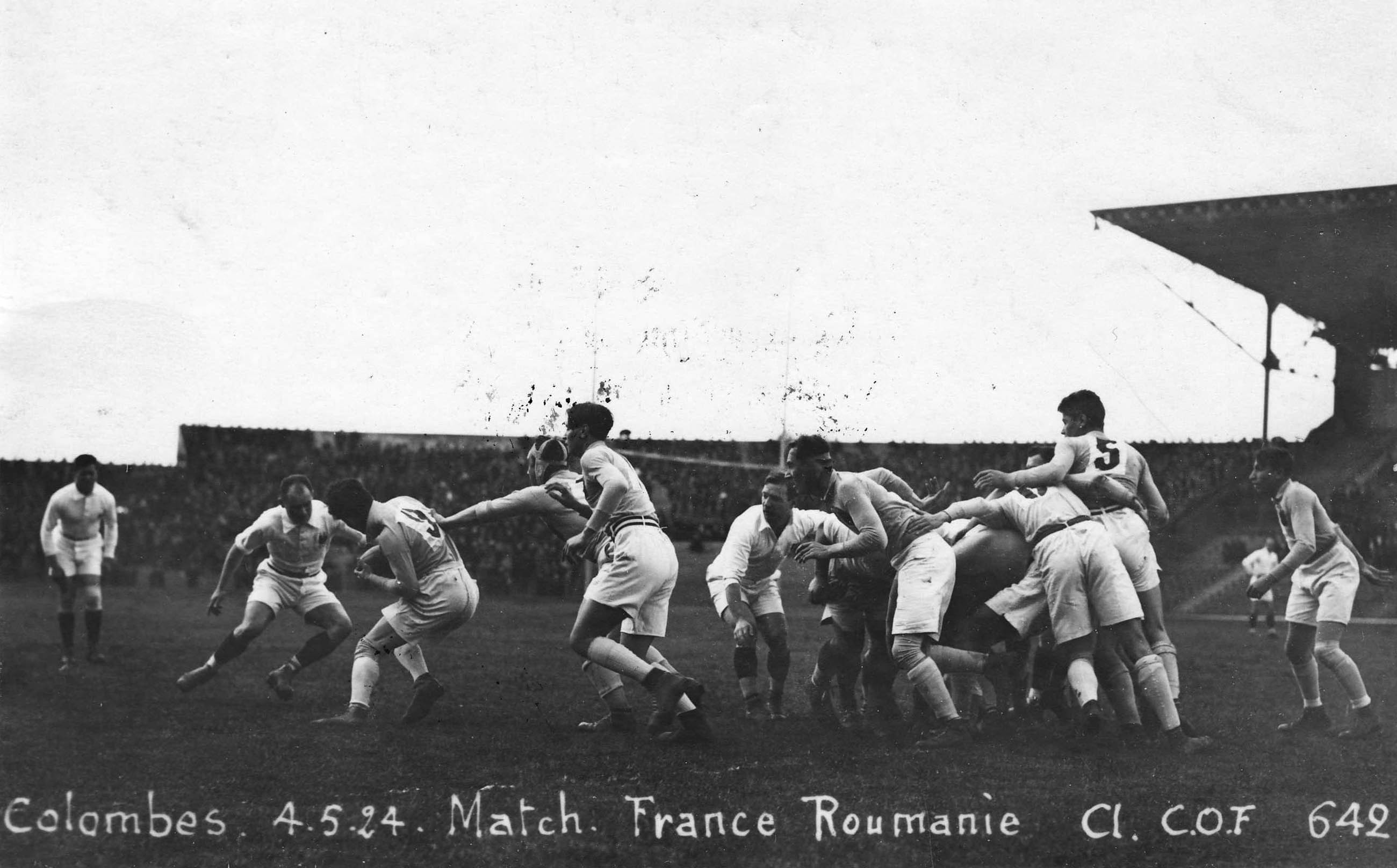 France v Romania at the Summer Olympics rugby tournament.